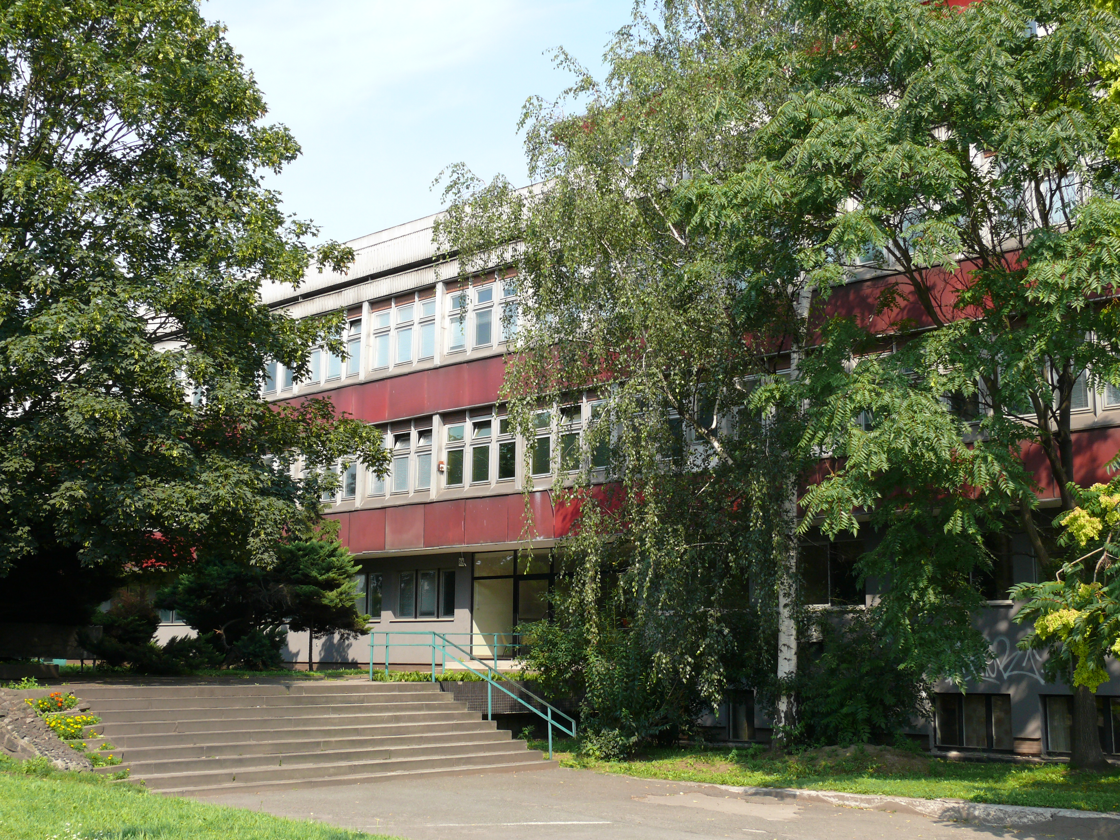 The Mathematical Institute of Wroclaw University; the front side of the building